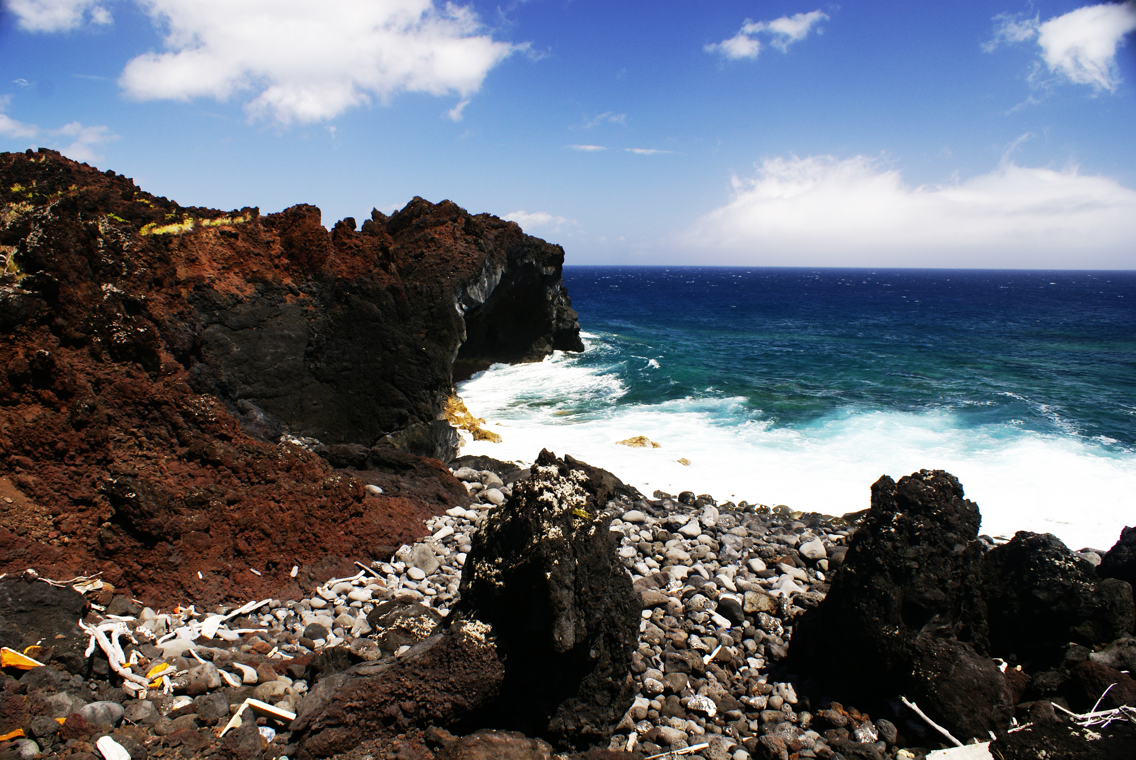 Ponta da ilha, paisagem observável do trilho pedestre, gruta, Piedade, Lajes do Pico, ilha do Pico, Açores, Portugal